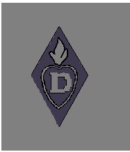 Hallmark by Pierre Gabriel Germain Dutalis, 1814-1815